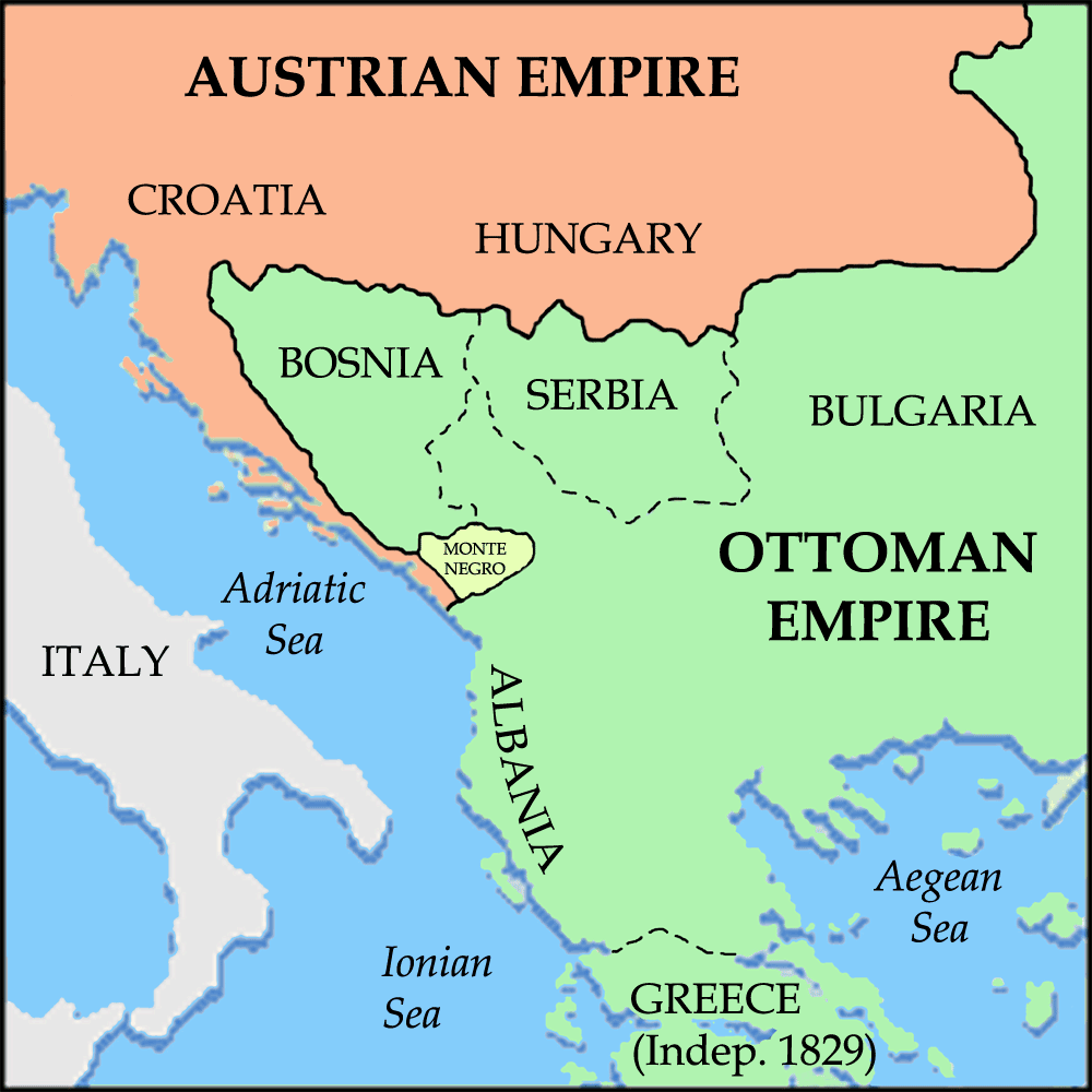 Balkans in 1815.